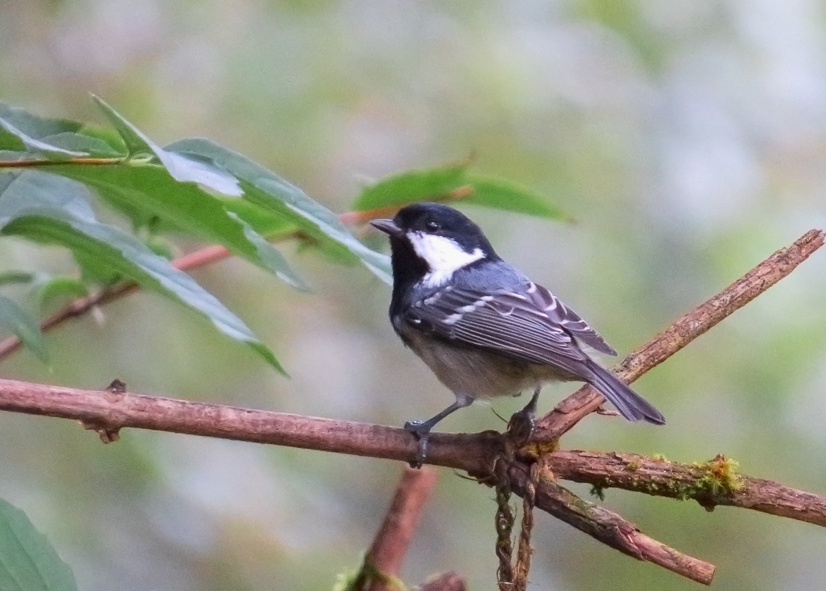 Scientific name: Periparus ater Original file: IMG_6501.TIF-single-new-new